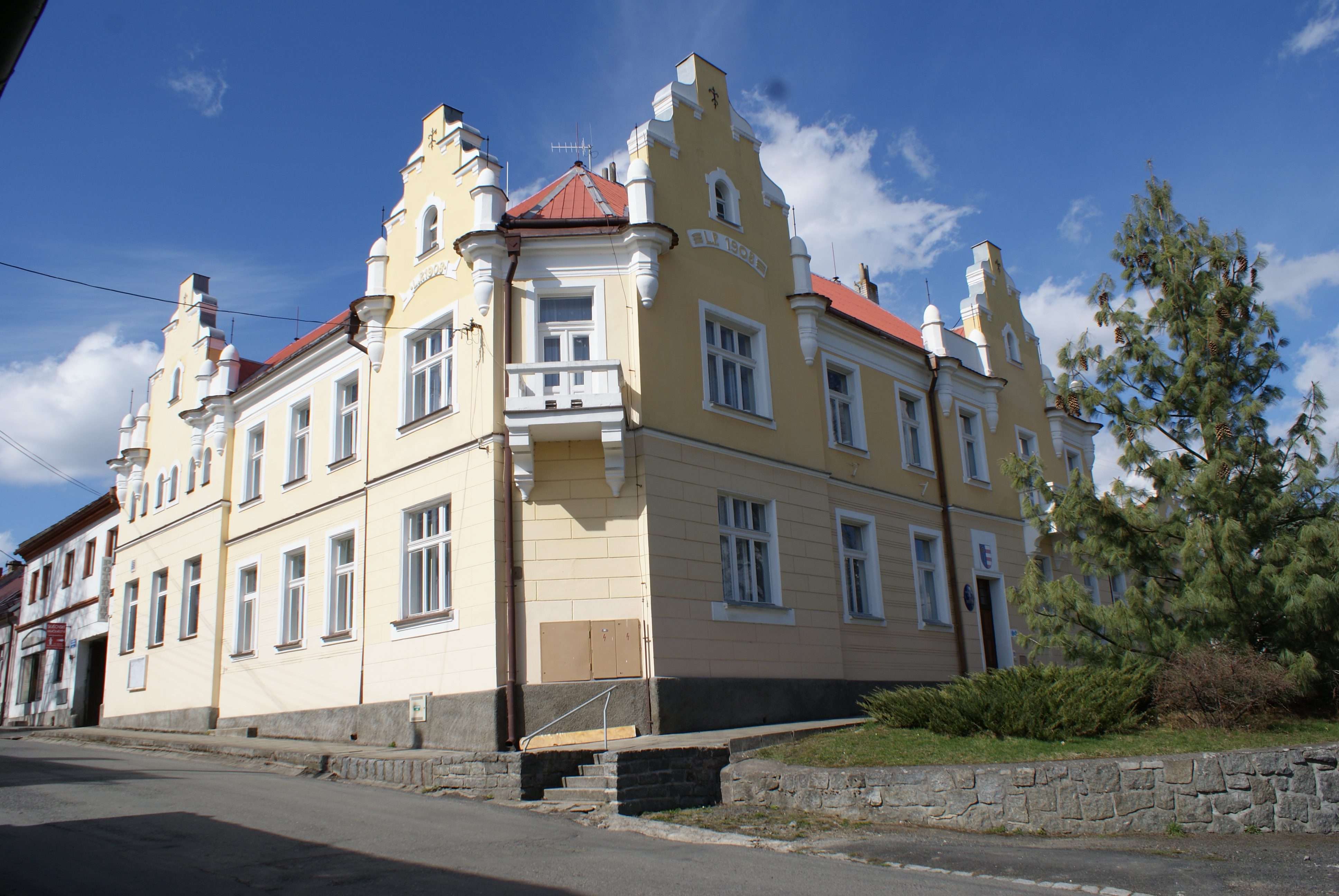 Měčín, town in Klatovy district, Czech Republic. The town hall.